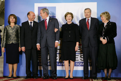 President George W. Bush and Mrs. Laura Bush share a light moment Wednesday, April 2, 2008, with Romania’s President Taian Basescu and Mrs. Maria Basescu, left, and NATO Secretary General Jaap de Hoop Scheffer and Mrs. Jeannine de Hoop Scheffer during the NATO Summit official greeting at the Cotroceni Palace in Bucharest. White House photo by Chris Greenberg